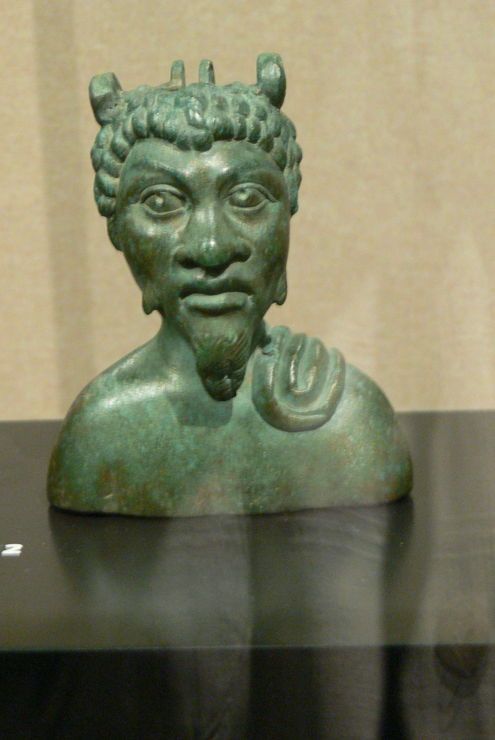 Museum Carnuntinum (Lower Austria). Bronze bust of an African.